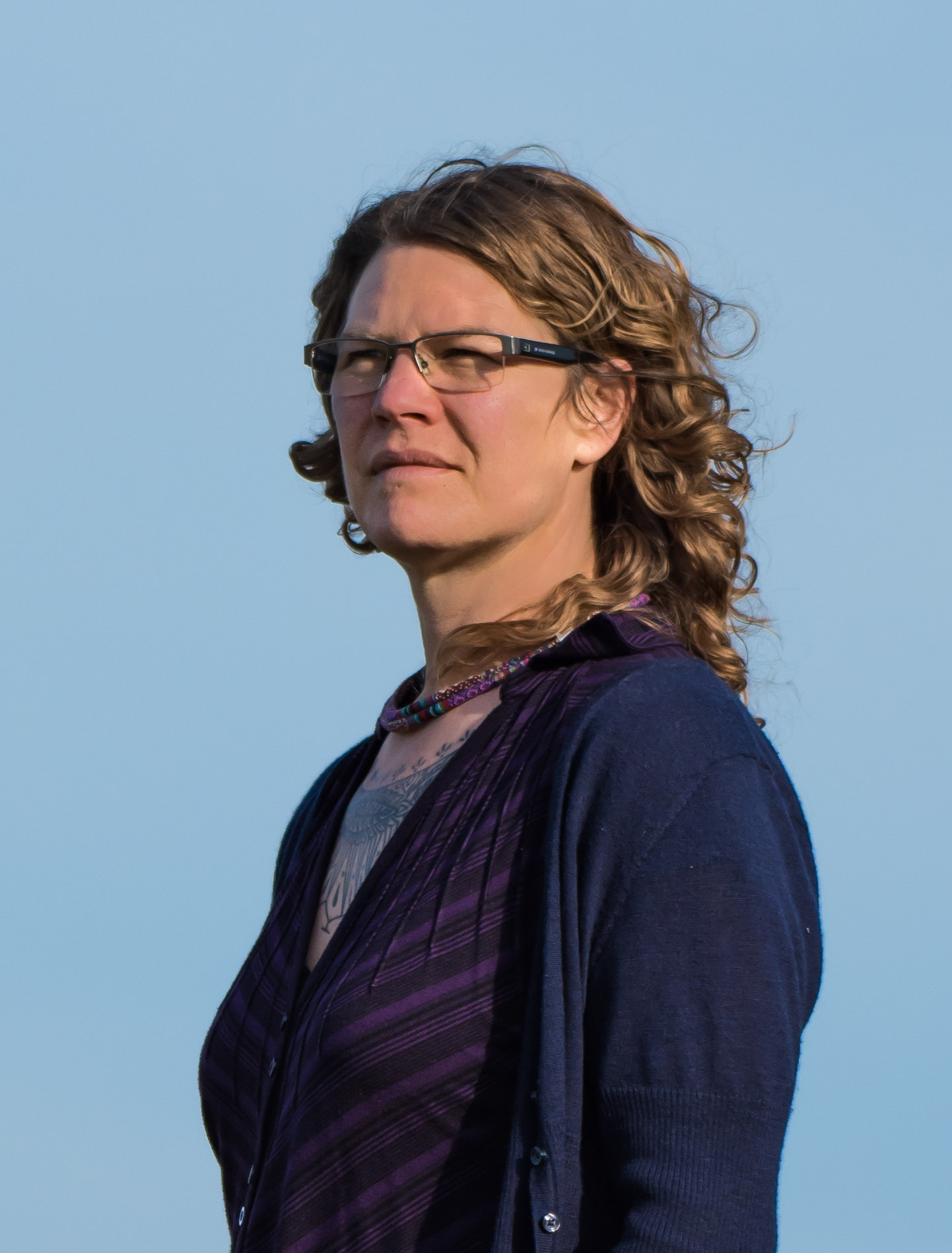 Diane Kingston portrait ,looking from right to left